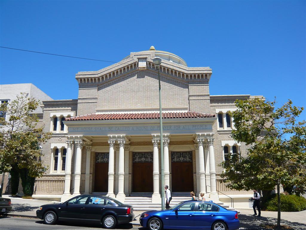 Exterior of Temple Sinai - First Hebrew Congregation of Oakland 28th street view